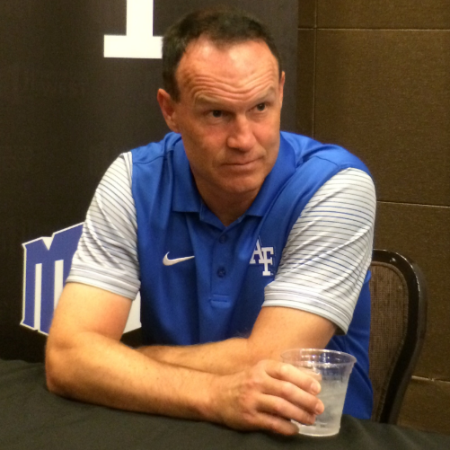 Troy Calhoun, head coach of the Air Force Falcons football team, at the 2016 Mountain West Conference Media Days in the The Cosmopolitan in Las Vegas.